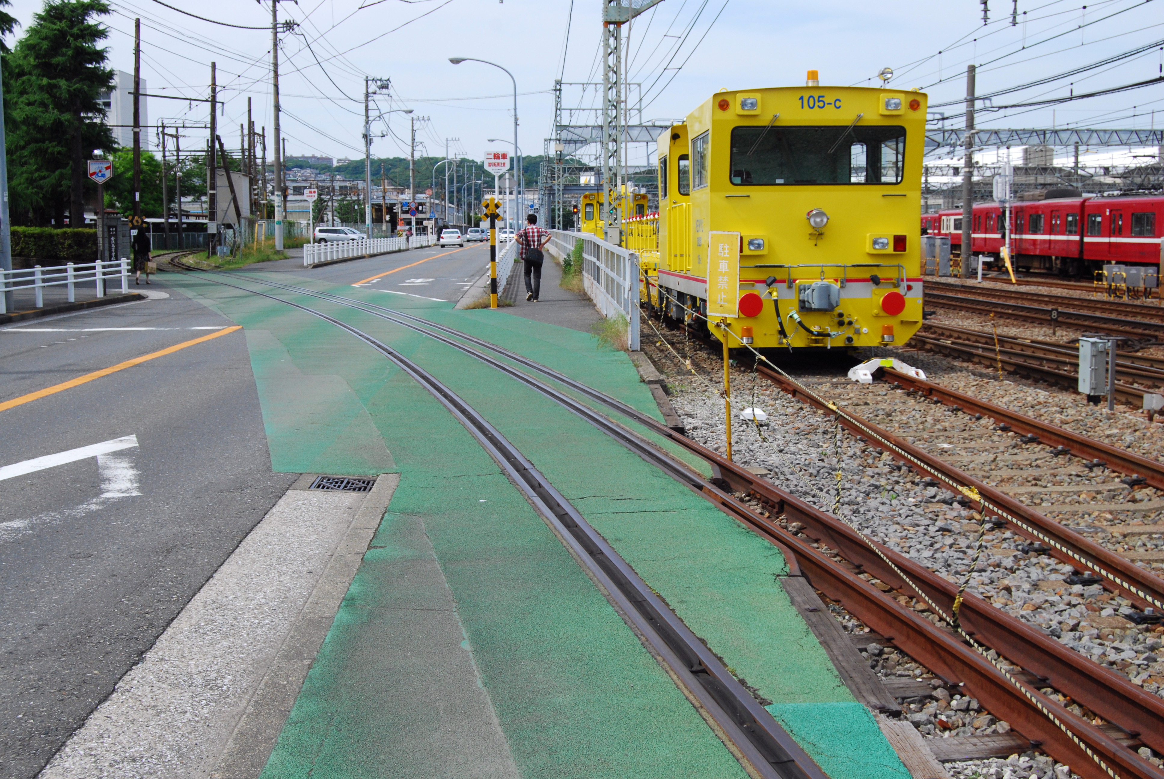 The dual-gauge (1,067 mm and 1,435 mm) track connecting the Tokyu Car Corporation (present-day J-TREC) factory in Yokohama to the Keikyu Zushi Line